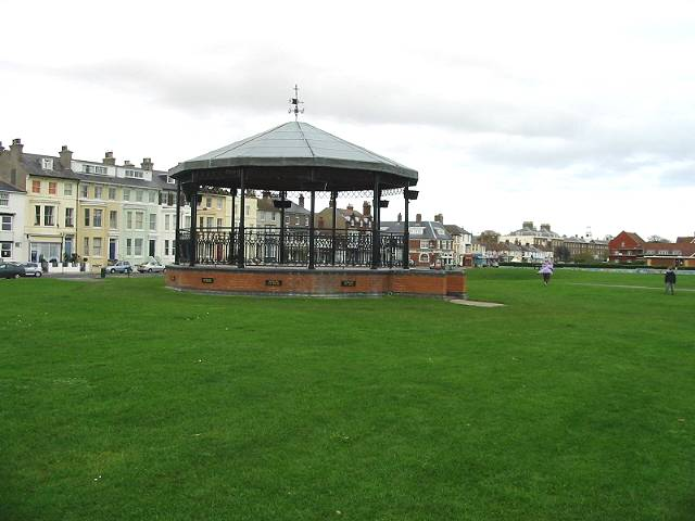 Bandstand at Walmer Dedicated to the 11 marines from the Royal Marines School of Music who were killed in the IRA bombing of 1989. 11 of the 12 sides carry a plaque with the name of each of the marines killed. Musicians:- T.J Reeves, C.R Nolan, M.F Ball, R.M Jones, M.T Petch, R.G Fice, R.L Simmonds, and Band Corporal's:- J.A Cleatheroe, T.J.E Davis, D.P.Pavey and D McMillan.